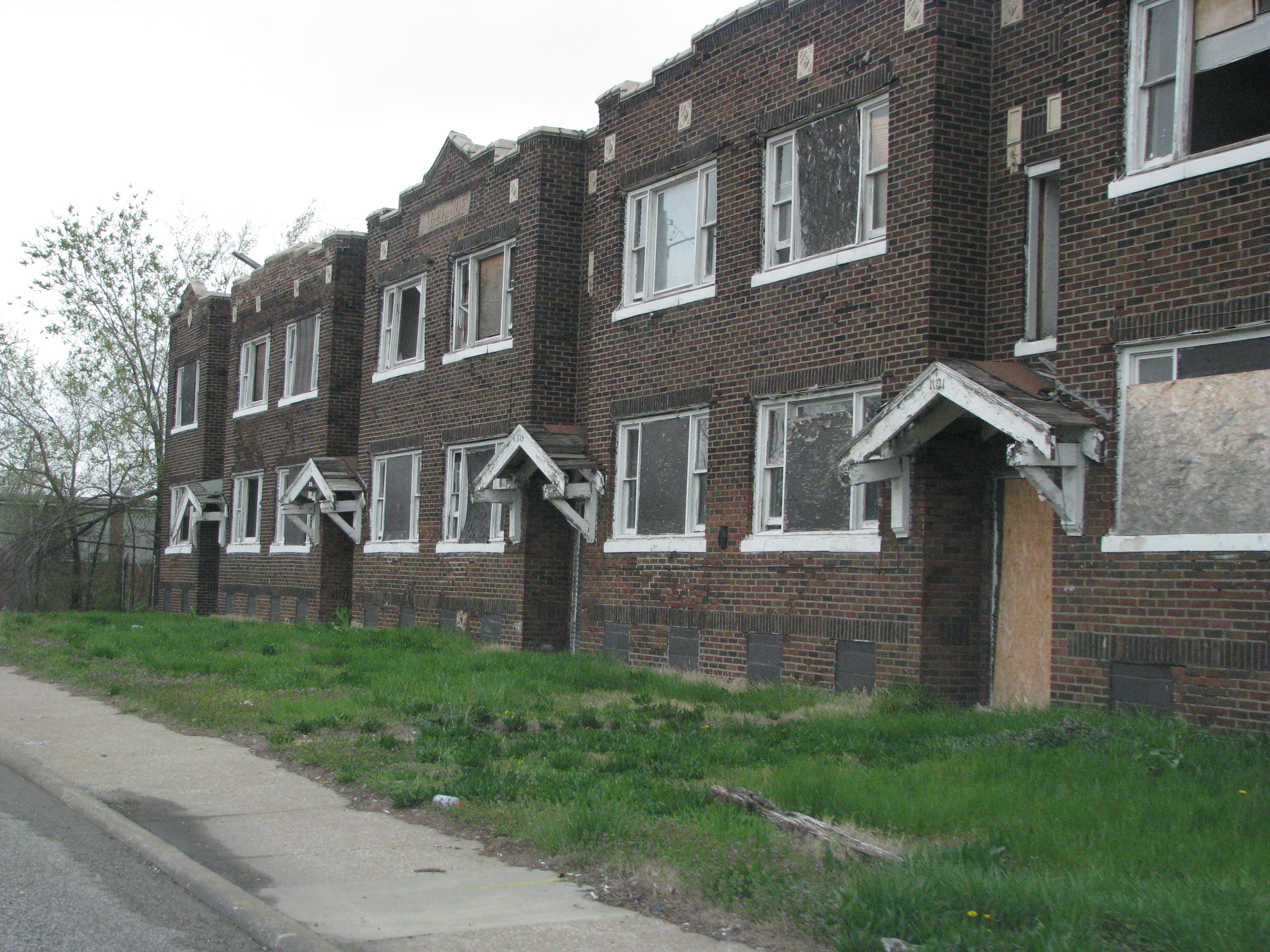 Abandoned apartments along IL Route 15 in East St. Louis.